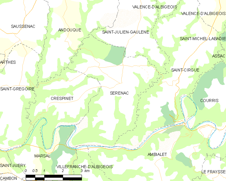 Map of French municipality Sérénac